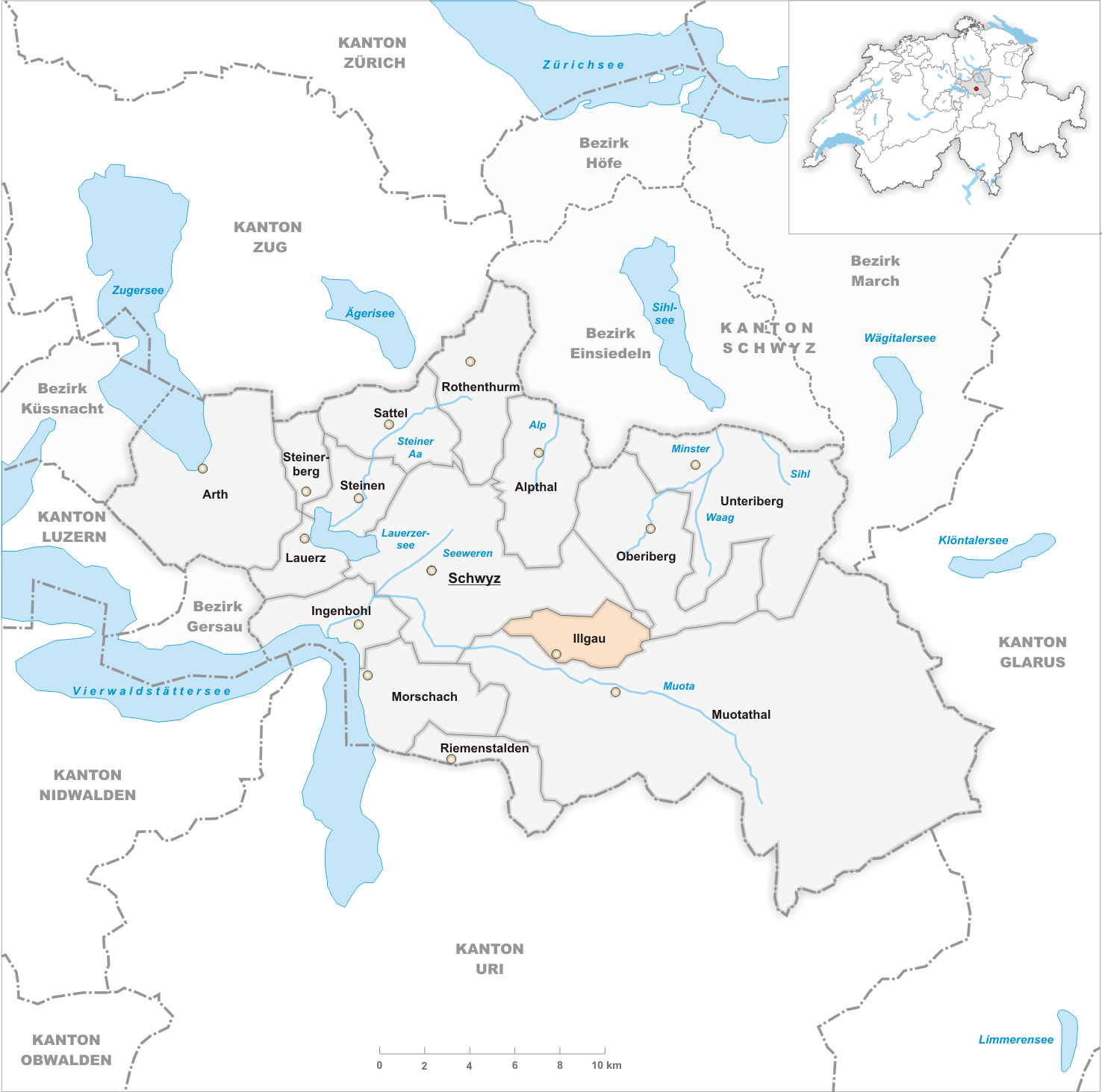 Municipality Illgau